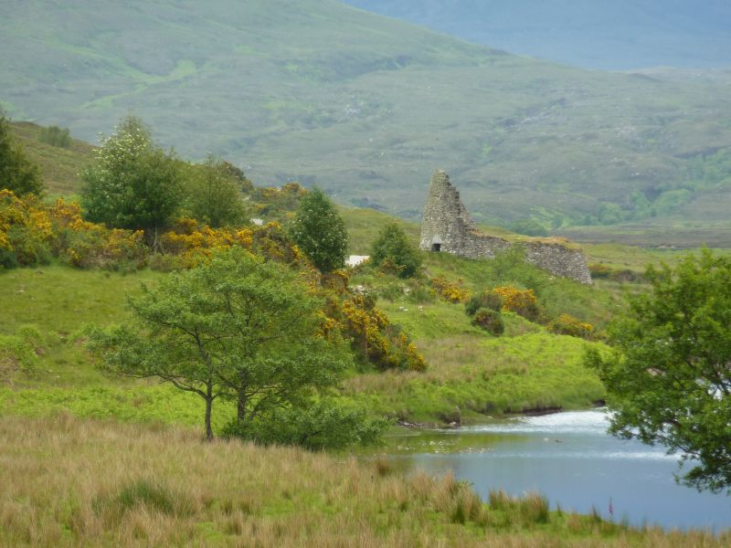 Dun Dornaigil, a broch in Sutherland, Scotland